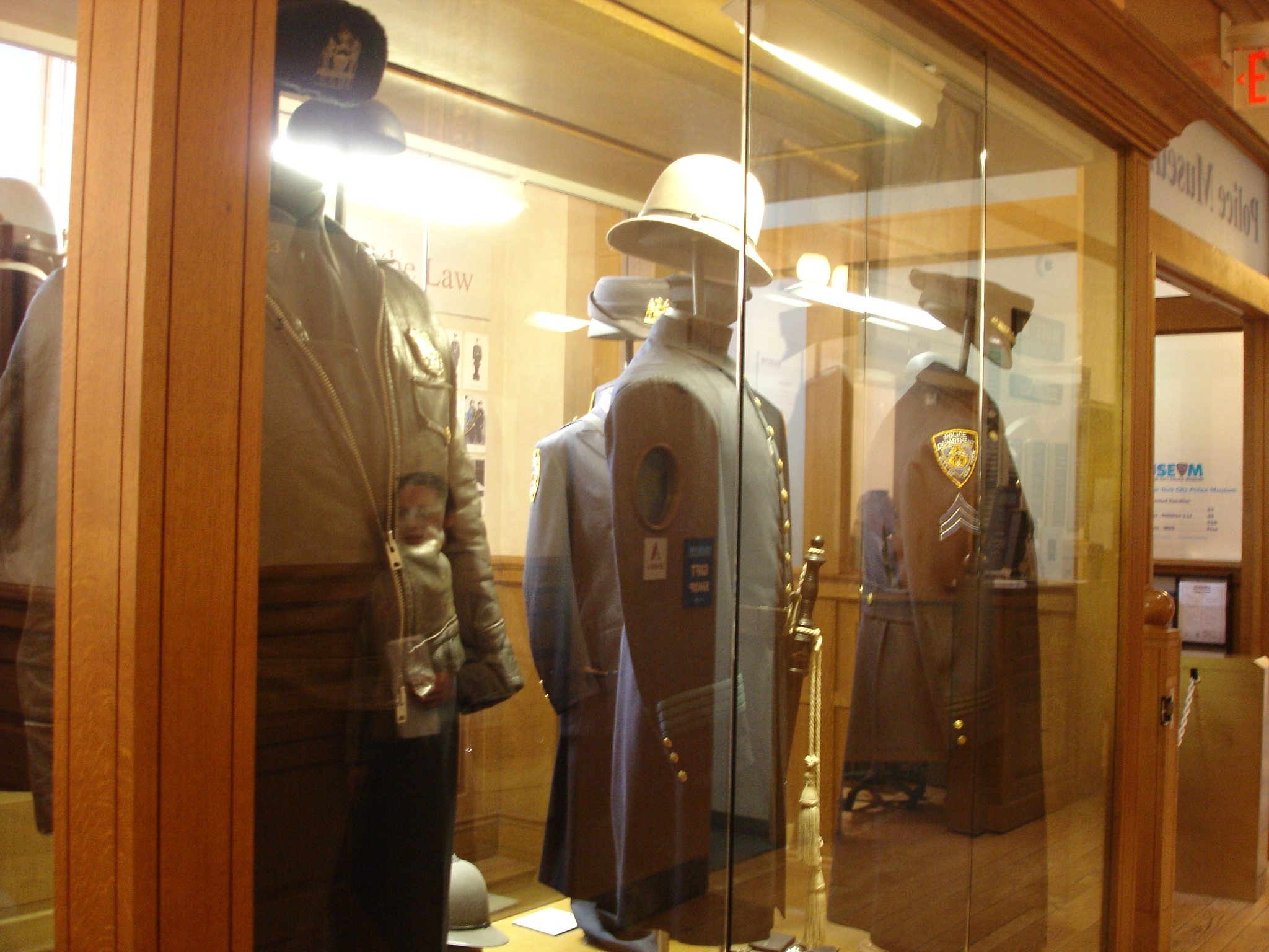 This photo is of Wikipedia Takes Manhattan location code 152, New York City Police Museum.